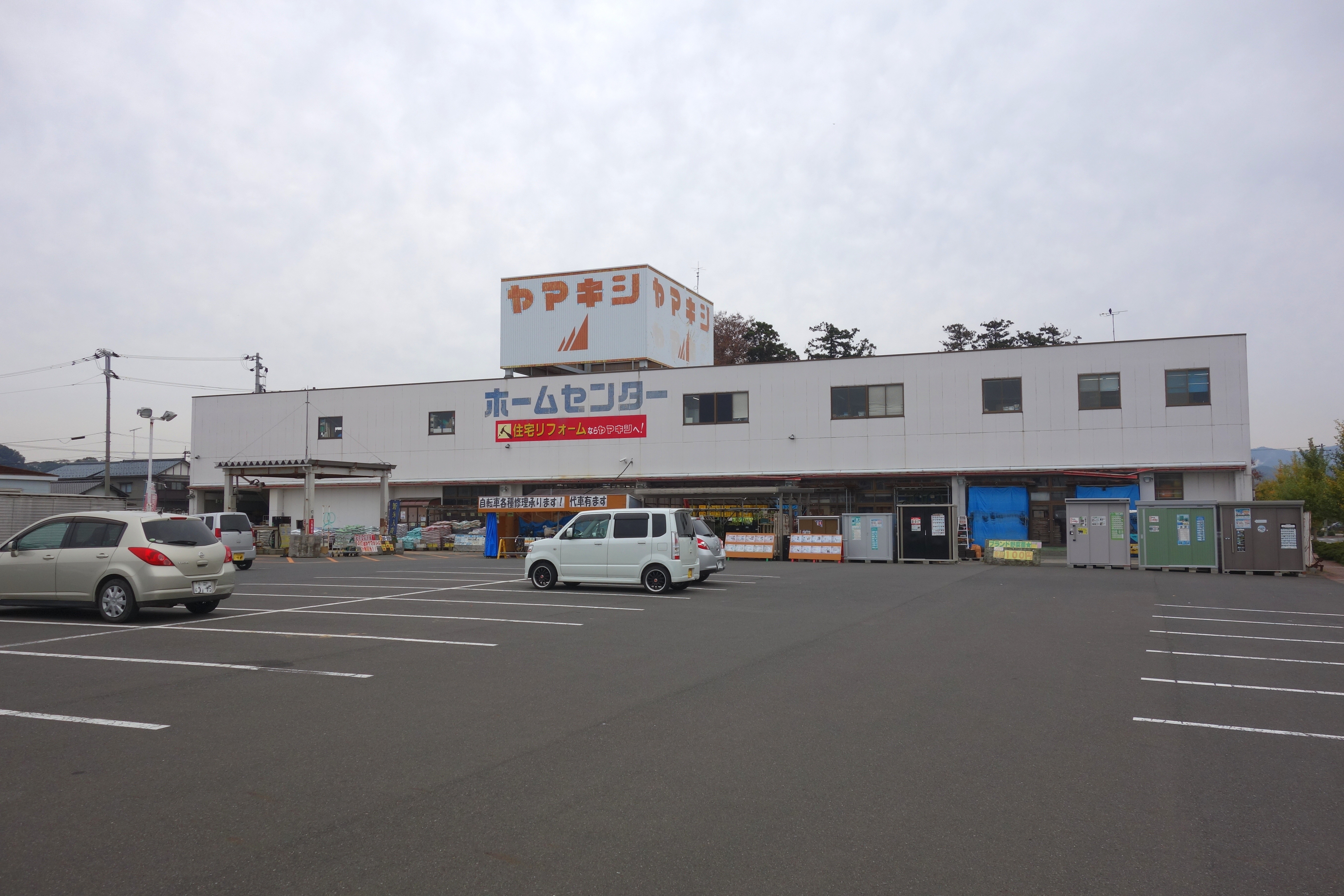 Yamakishi shop, Awara-shi, Fukui Pref., Japan